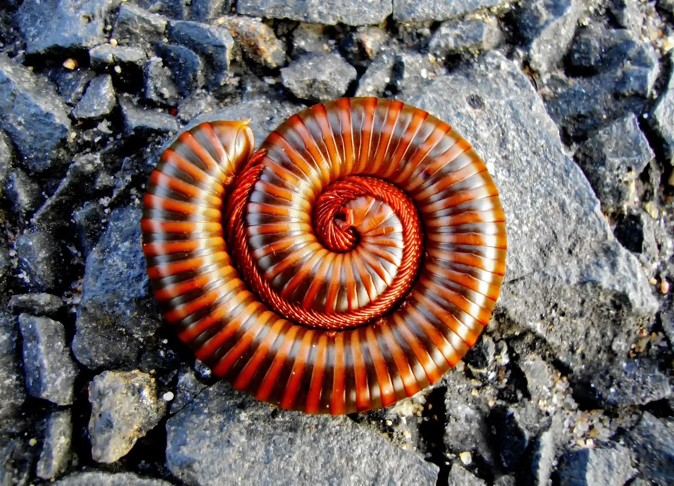 Millipede curled up